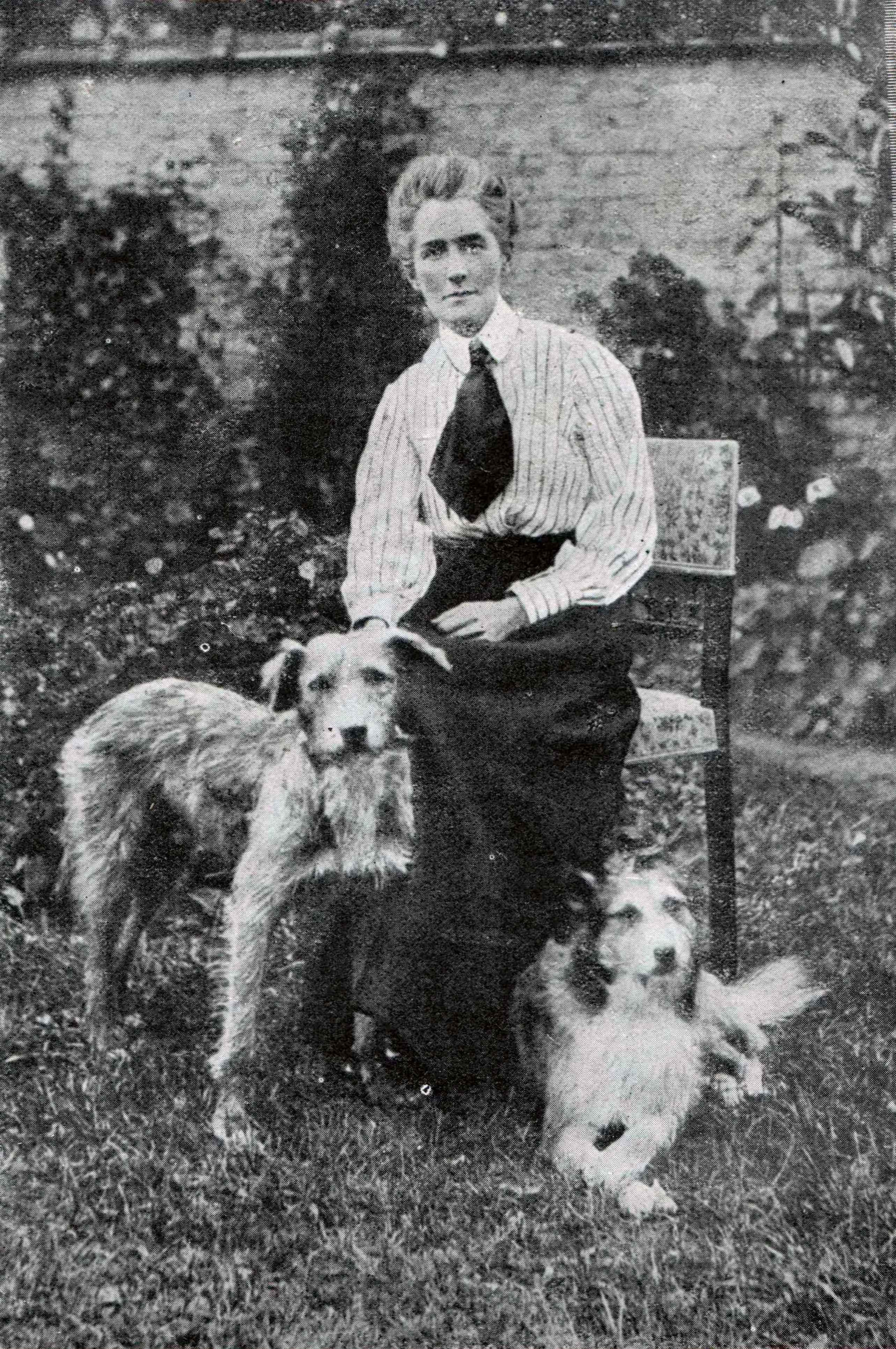 Scan of L'ILLUSTRATION No 3791 30 Octobre 1915. No 3791, 30 Octobre 1915, Page 448, Miss Edith Cavell.